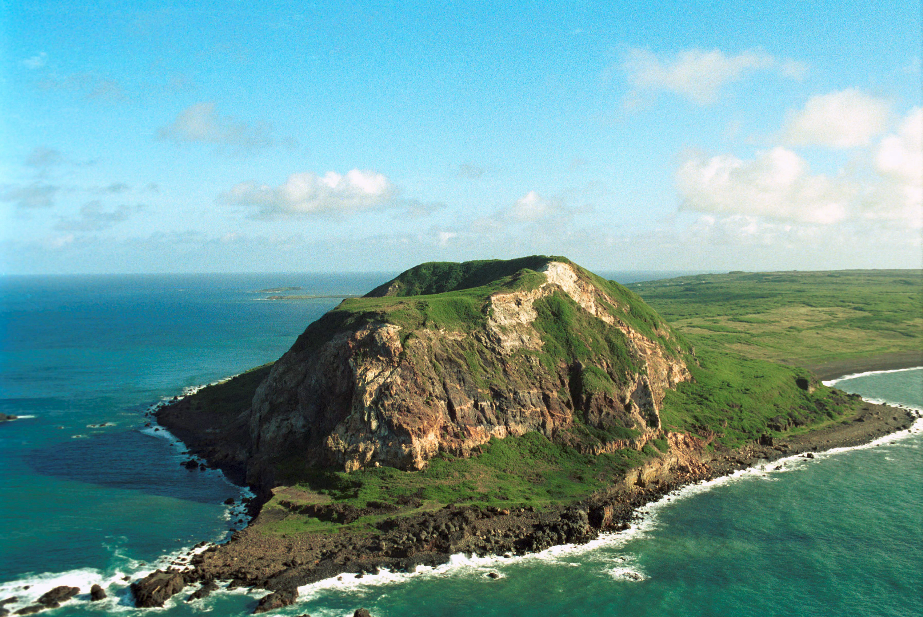 ID: DNSD0311845; Service Depicted: Other Service 010928N0271M009; Aerial view of Mount Surabuchi on the Island of Iwo Jima, Japan. Camera Operator: PHAN LEE MCCASKILL, USN; Date Shot: 28 Sep 2001